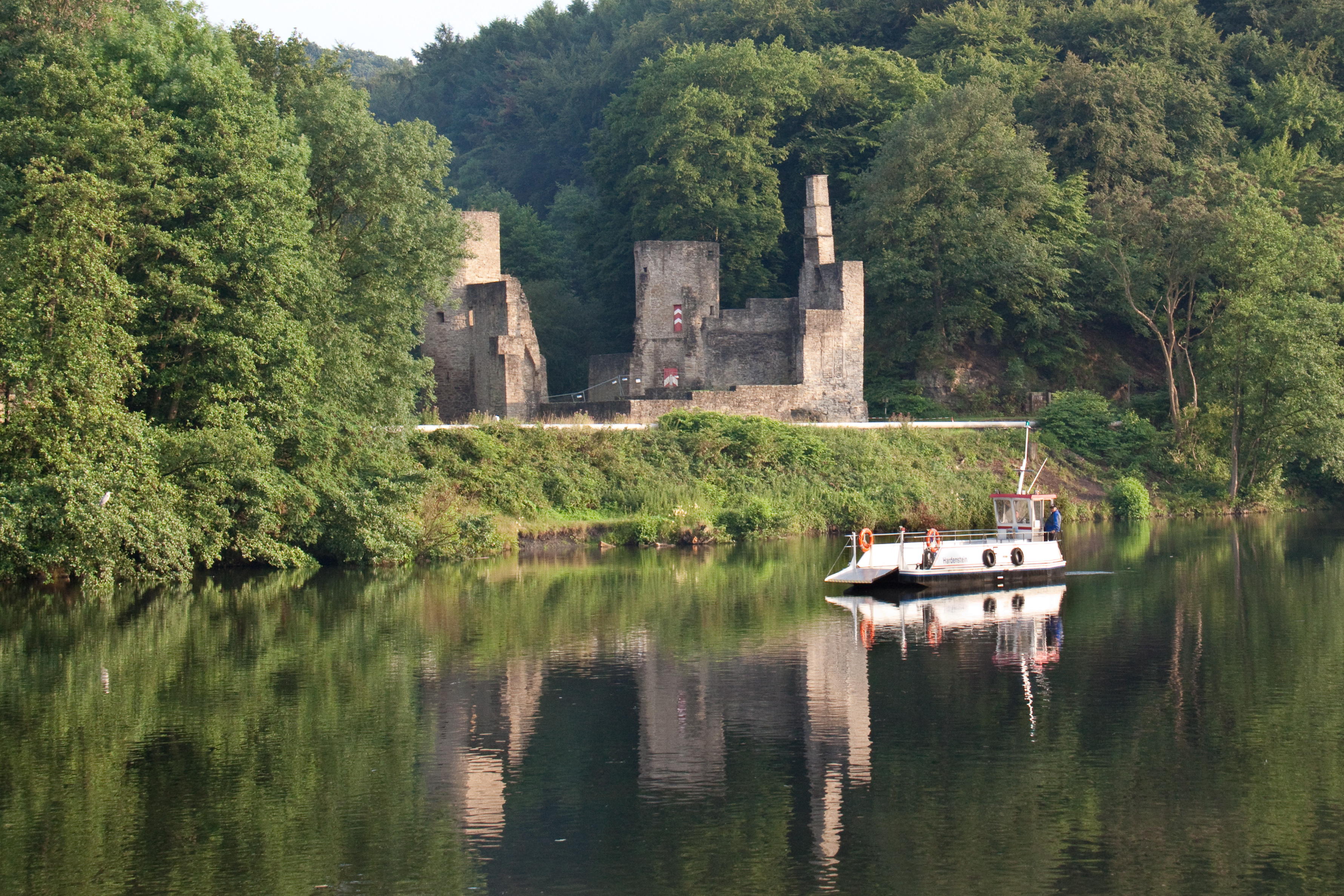 Ferry Hardenstein in front of Burg Hardenstein